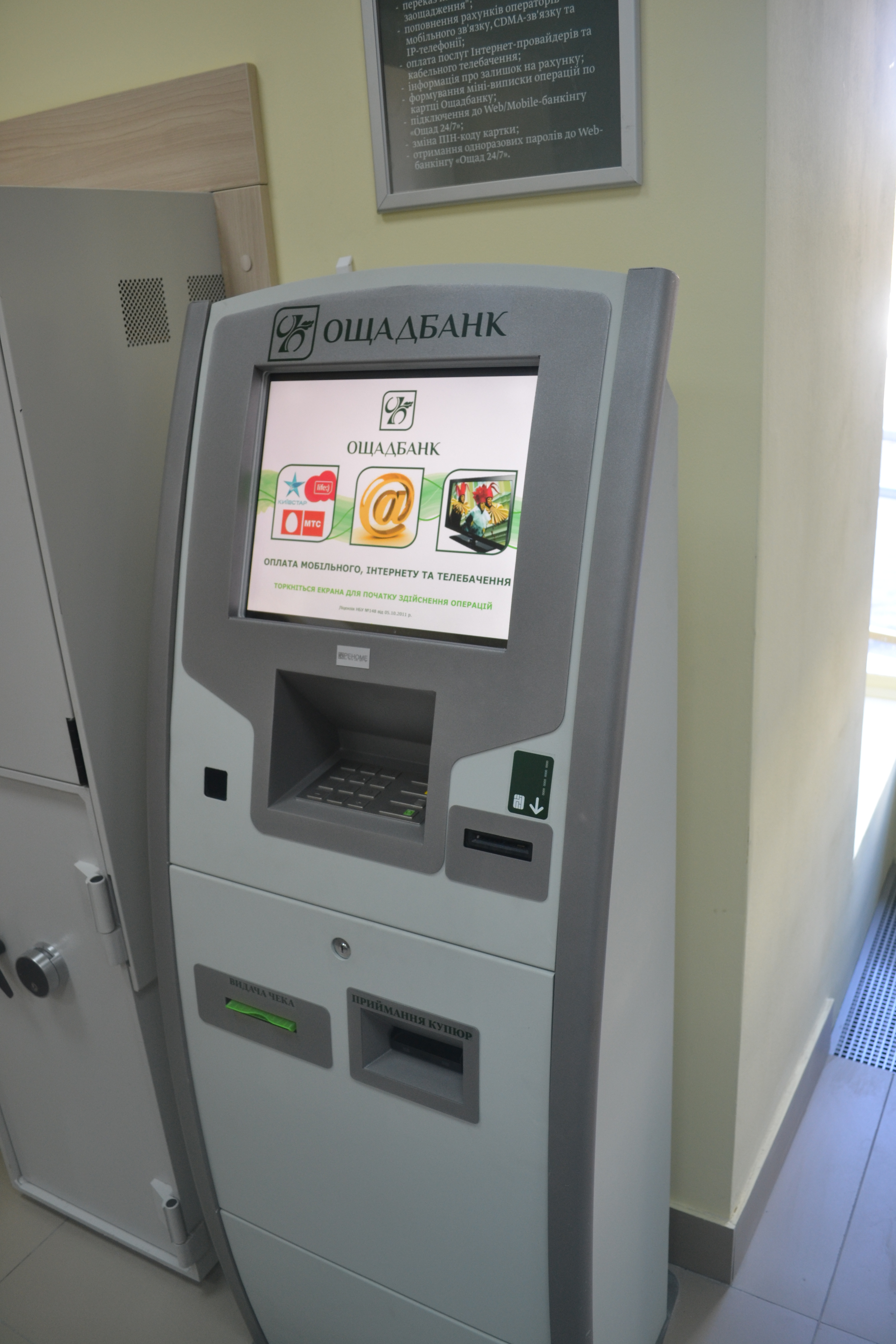 Information and payment terminal of Oshchadbank